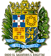 Heralic composition with the brigidine shield, with royal arms of Sweden and Christian (cross, crown, etc.) symbols